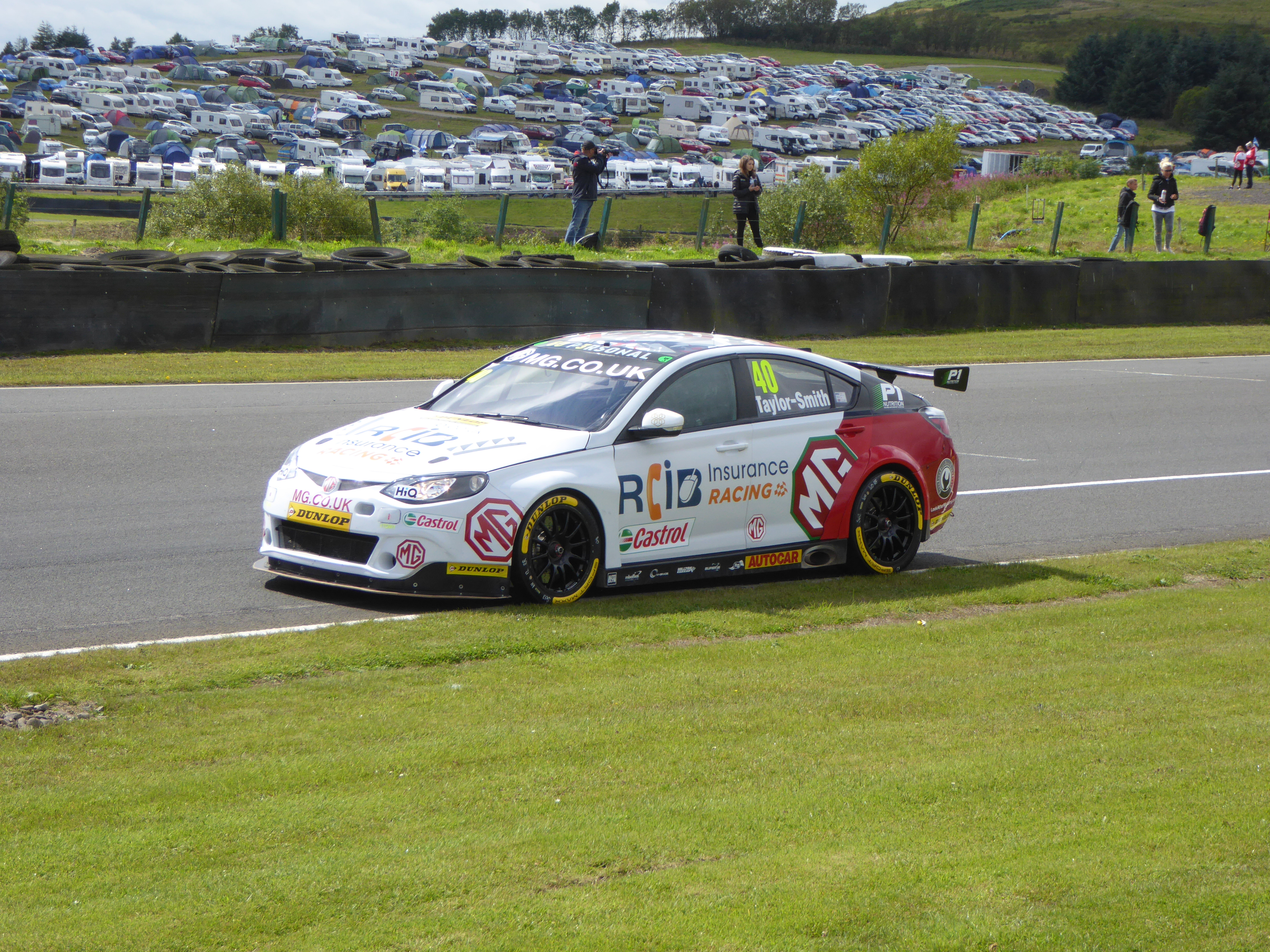 Árón Taylor-Smith (MG Racing RCIB Insurance), at the Knockhill round of the 2017 British Touring Car Championship.